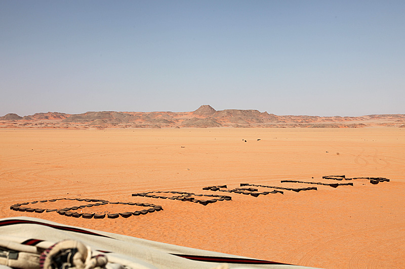 Writing at the aerodrome, Eight Bells, Western Desert, Egypt